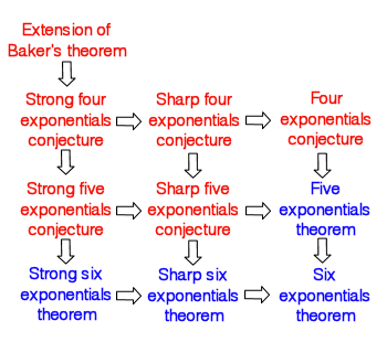 An illustration of the logical implications between the circle of problems including the four exponentials conjecture and six exponentials theorem, colour coded with proven theorems in blue and open problems in red.